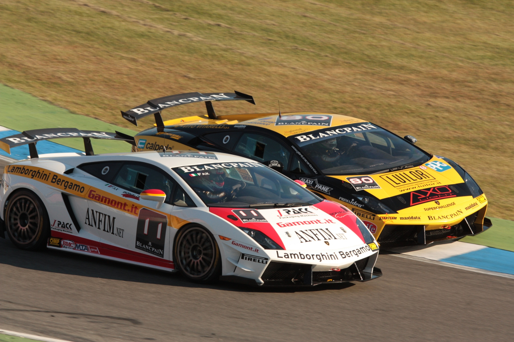 Two Lamborghini Gallardo Super Trofeo fighting against each other at race in Hockenheim 2011.